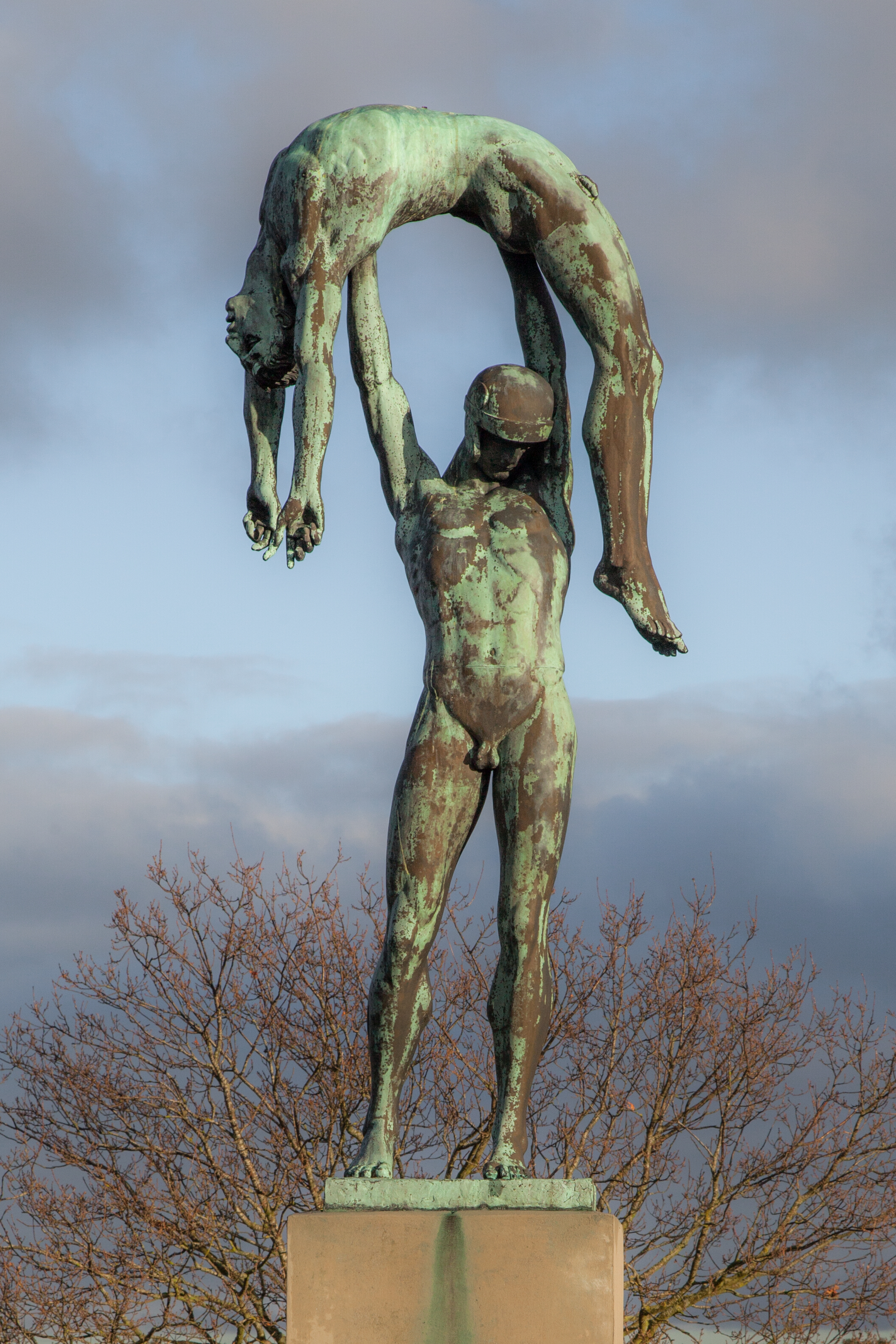 VictoryDansk: Sejren